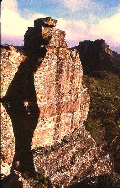 Ruined Castle, Jamison Valley, Blue Mts, NSW, Australia (Kodachrome slide scanned at low res)